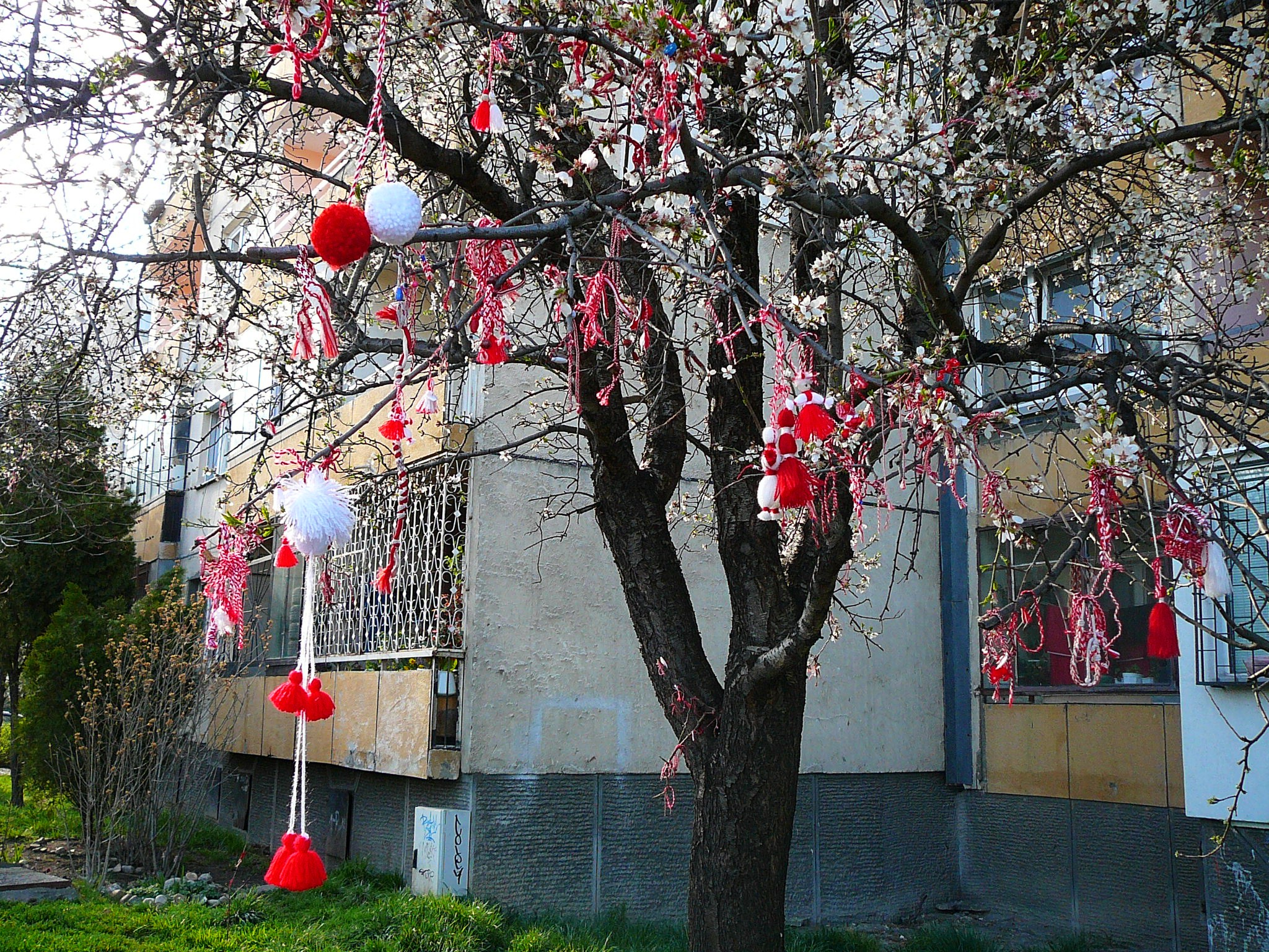 Martenitsa